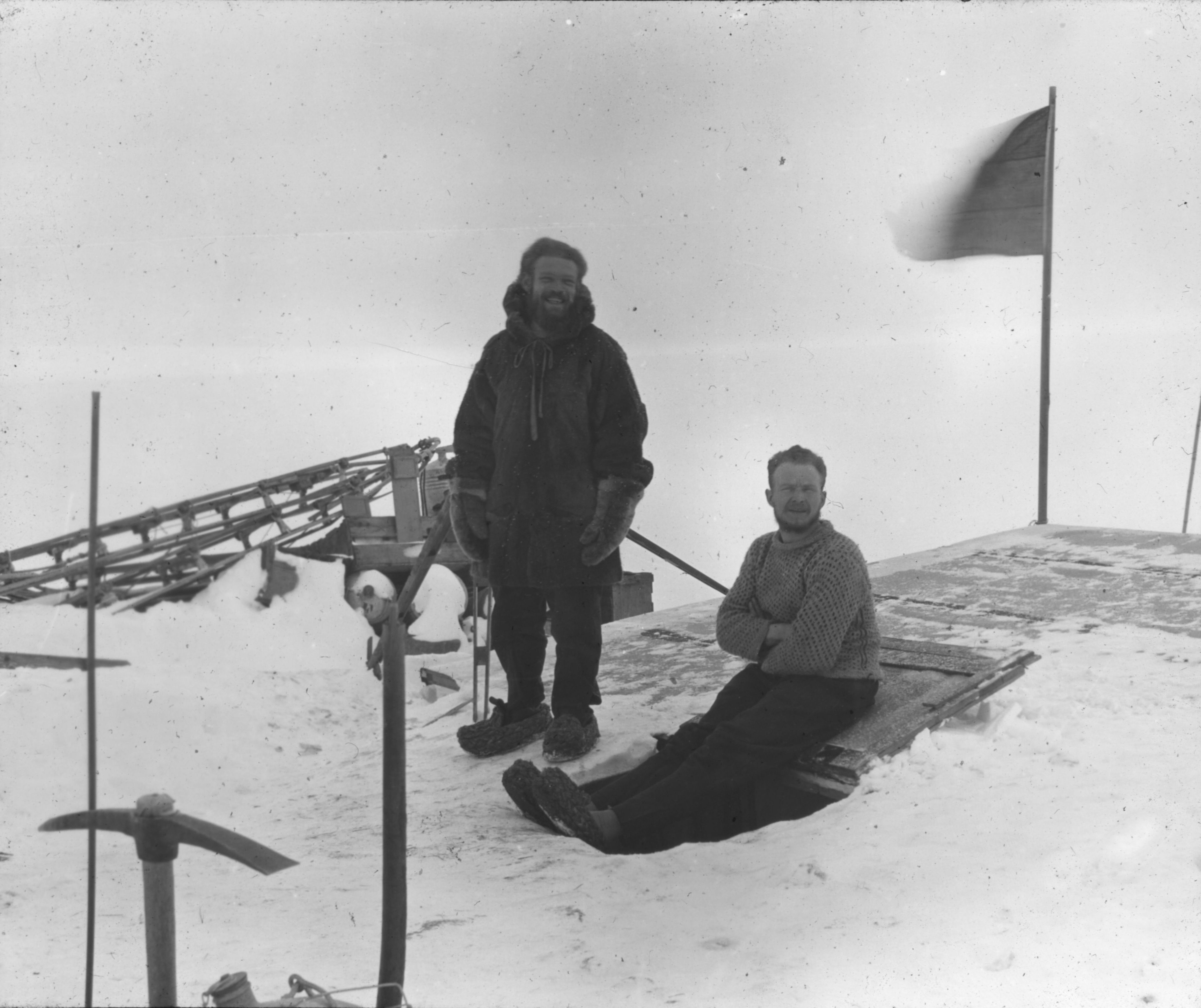 Photographs of the German expedition and overwintering in Greenland in 1930/31